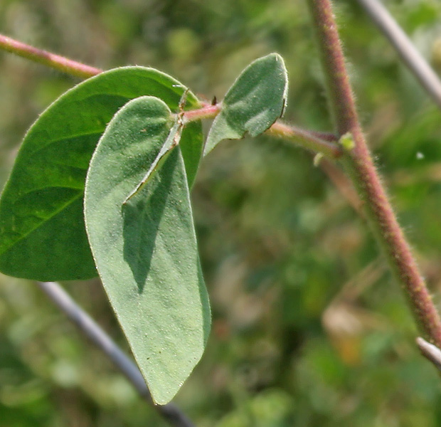 Chamaecrista absus (L.) H. S. Irwin & Barneby (syn. Cassia absus L.)- Jasmeejaz, Chaksu, chakushya, chimed- in Herbal Garden, in Rangareddy district of Andhra Pradesh, India.